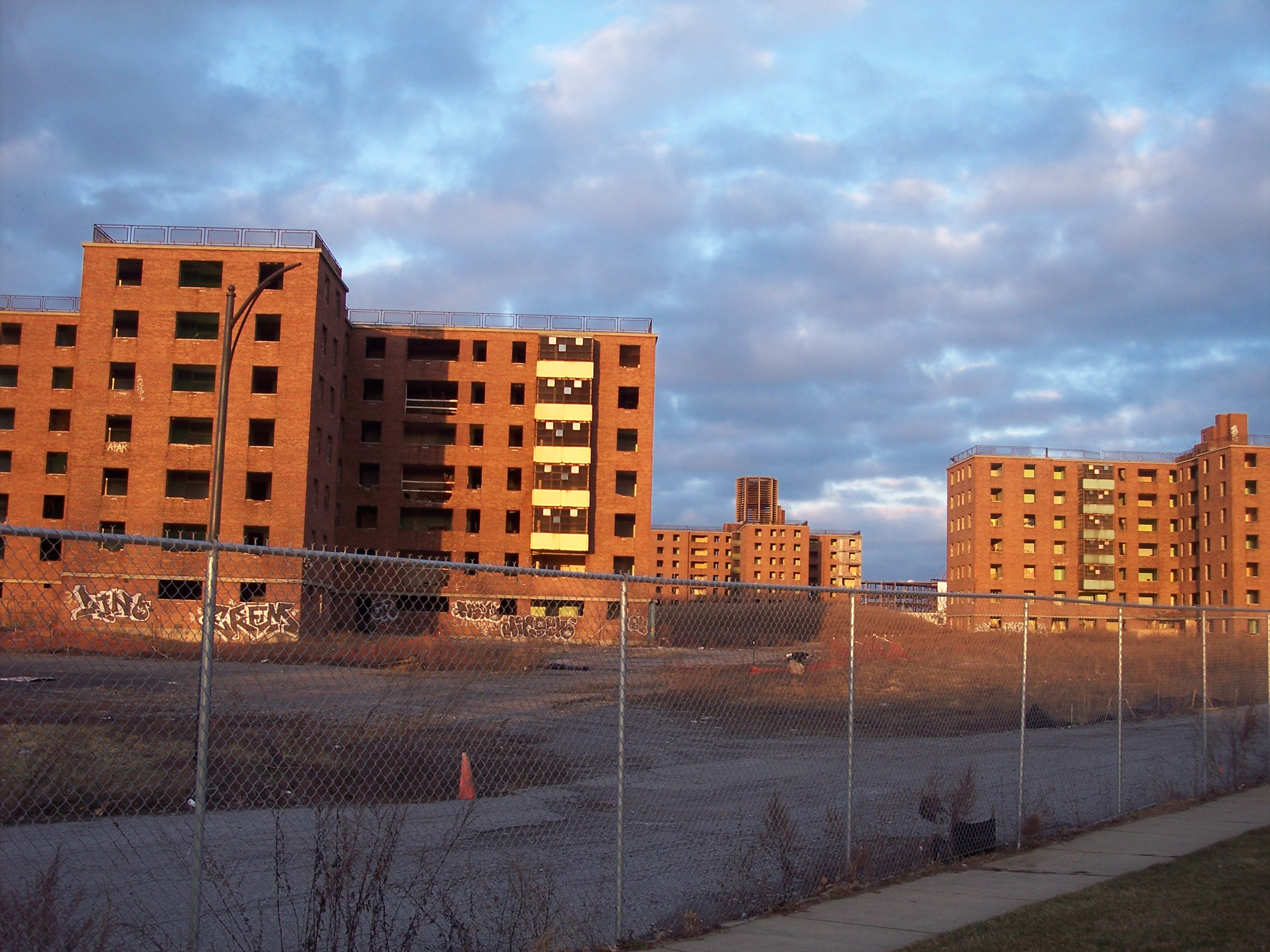 Kensington heights towers, also know as "Glenny Drive Apartments" public housing in Buffalo, New York (now demolished)